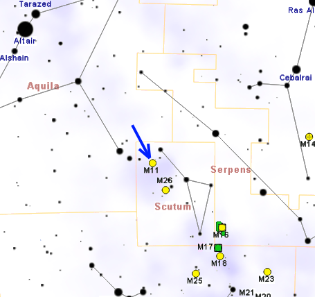 Map of M11